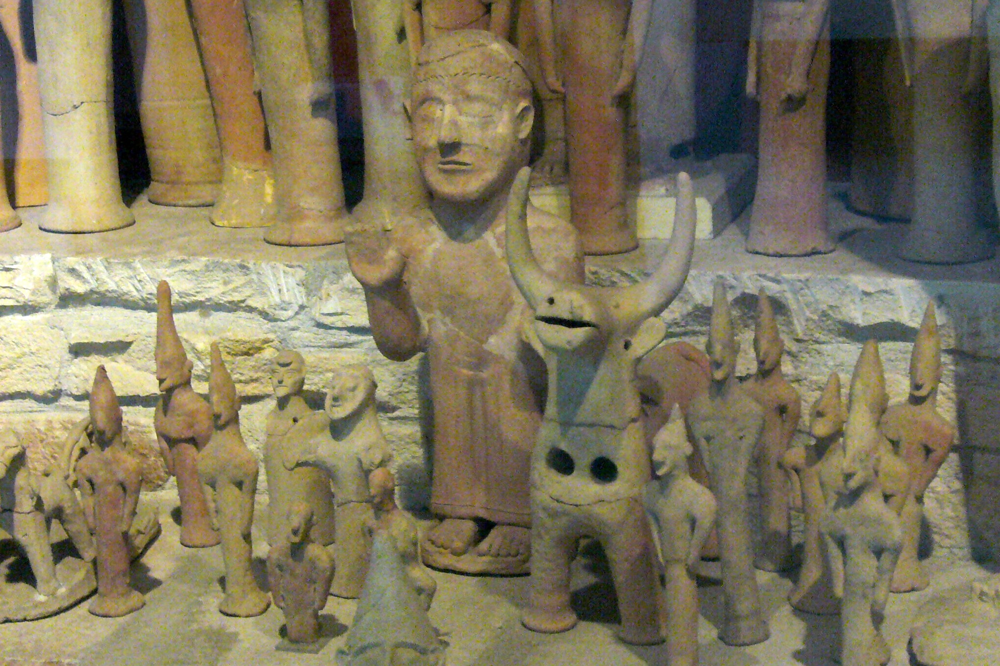 Terracotta figurines from the sanctuary of Agia Irini (Eirini) in NW Cyprus. Dated to the 7th-6th centuries B.C. Archaeological Museum in Nicosia, Cyprus